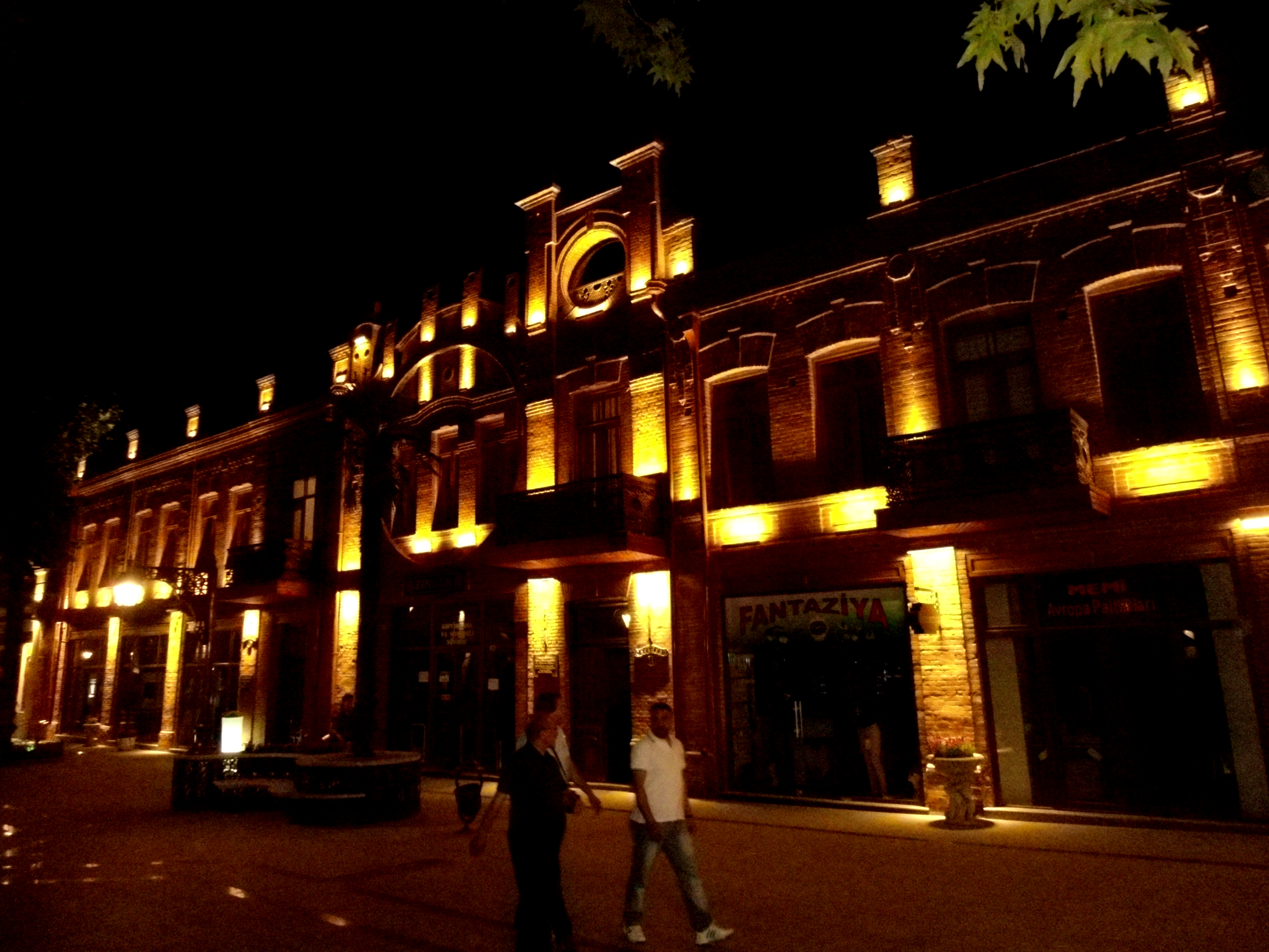 One of teh historical buildings in Ganja city of Azerbaijan